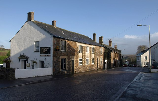 Arundell Arms, Lifton 1474819, looking down the hill from across Fore Street, from the same spot as 1597090. The hotel's original building - that is the building to the right, seen more clearly in the other images - "is about 250 to 300 years old" which gives a good history of the village. The Arundell Arms has become associated with fly-fishing, thanks to the owner's late husband, former BBC political journalist Conrad Voss-Bark, and interesting fishing memorabilia decorate the walls. Behind the hotel is a cockpit, a rare survival, and no longer used for cock-fighting, I hasten to add. On my next visit I must remember to ask to see it.